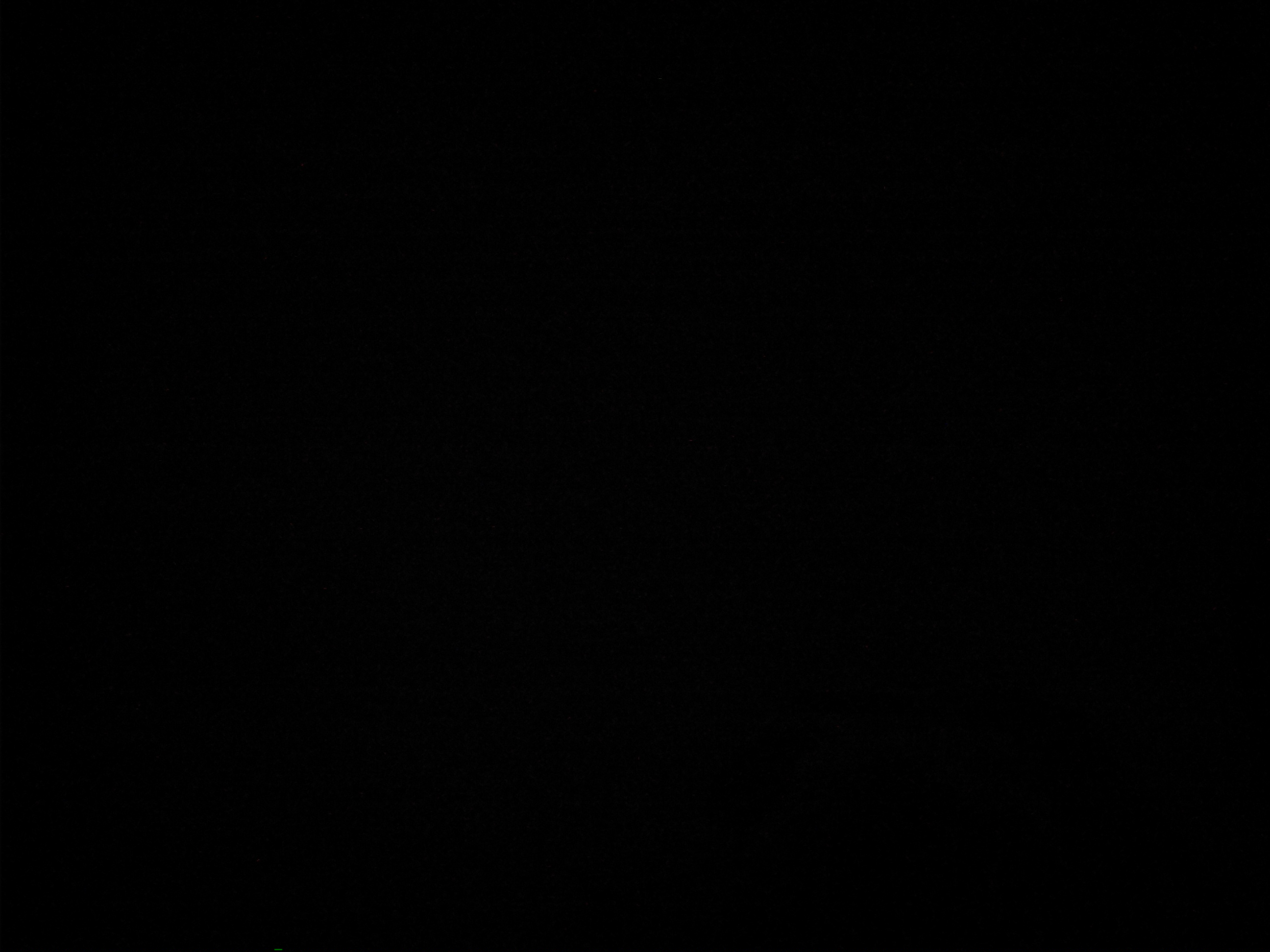 Black screen of the camera.